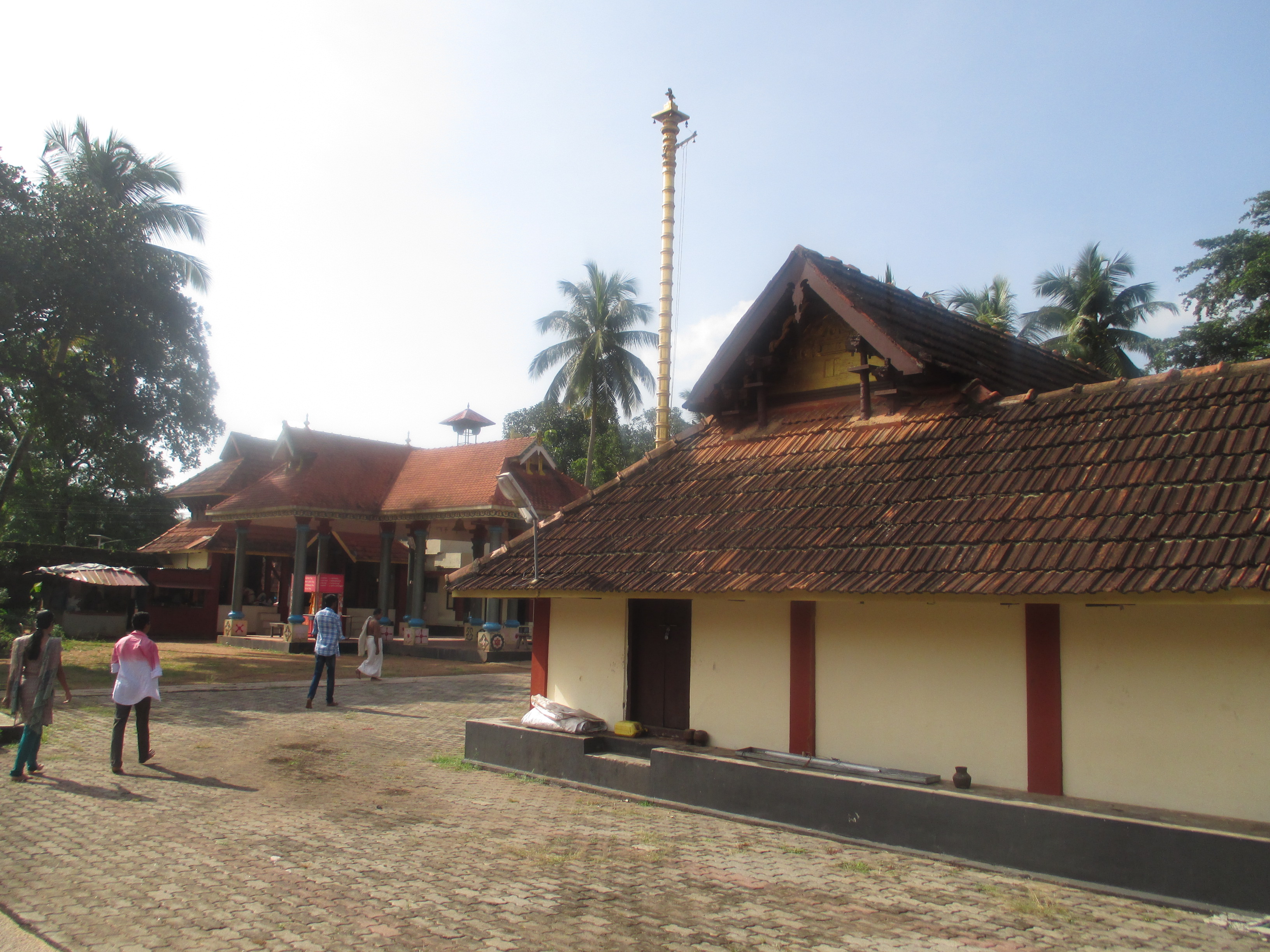 Thrikodithanam Mahavishnu Temple